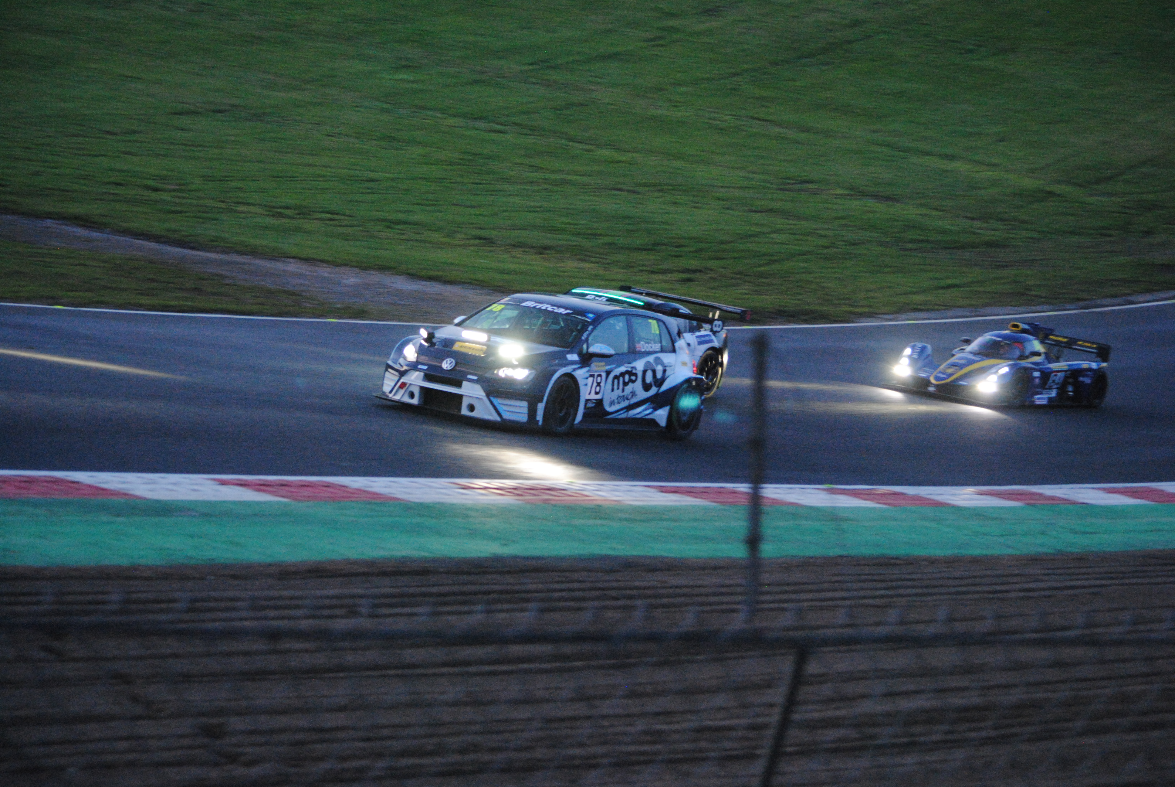 The Class 4 title winning VW Golf TCR driven by Tim Docker, on the formation lap of the last round of the 2019 Britcar Endurance Championship at Brands Hatch, in the 'Into the Night' race.